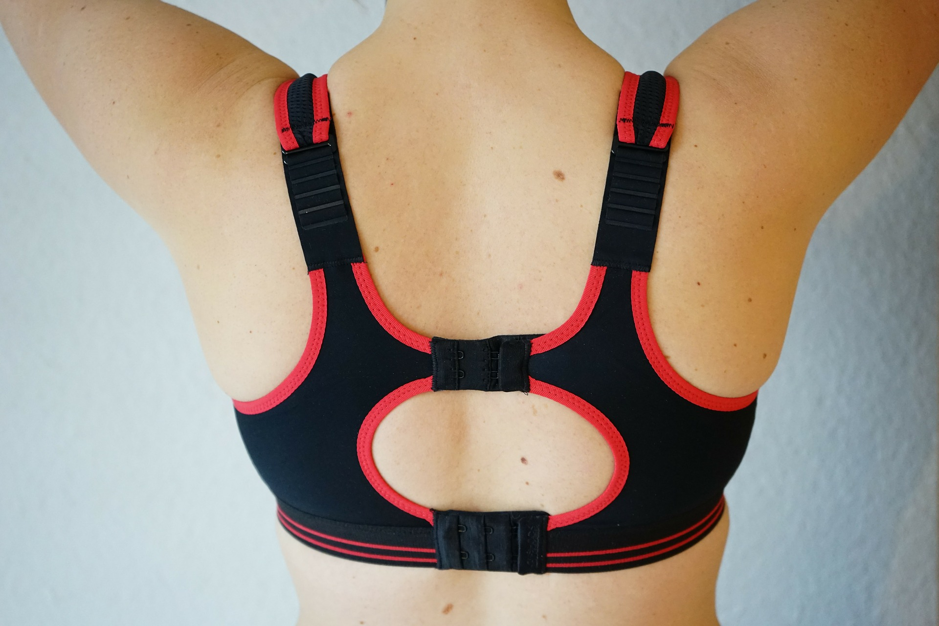 Sports bra rear